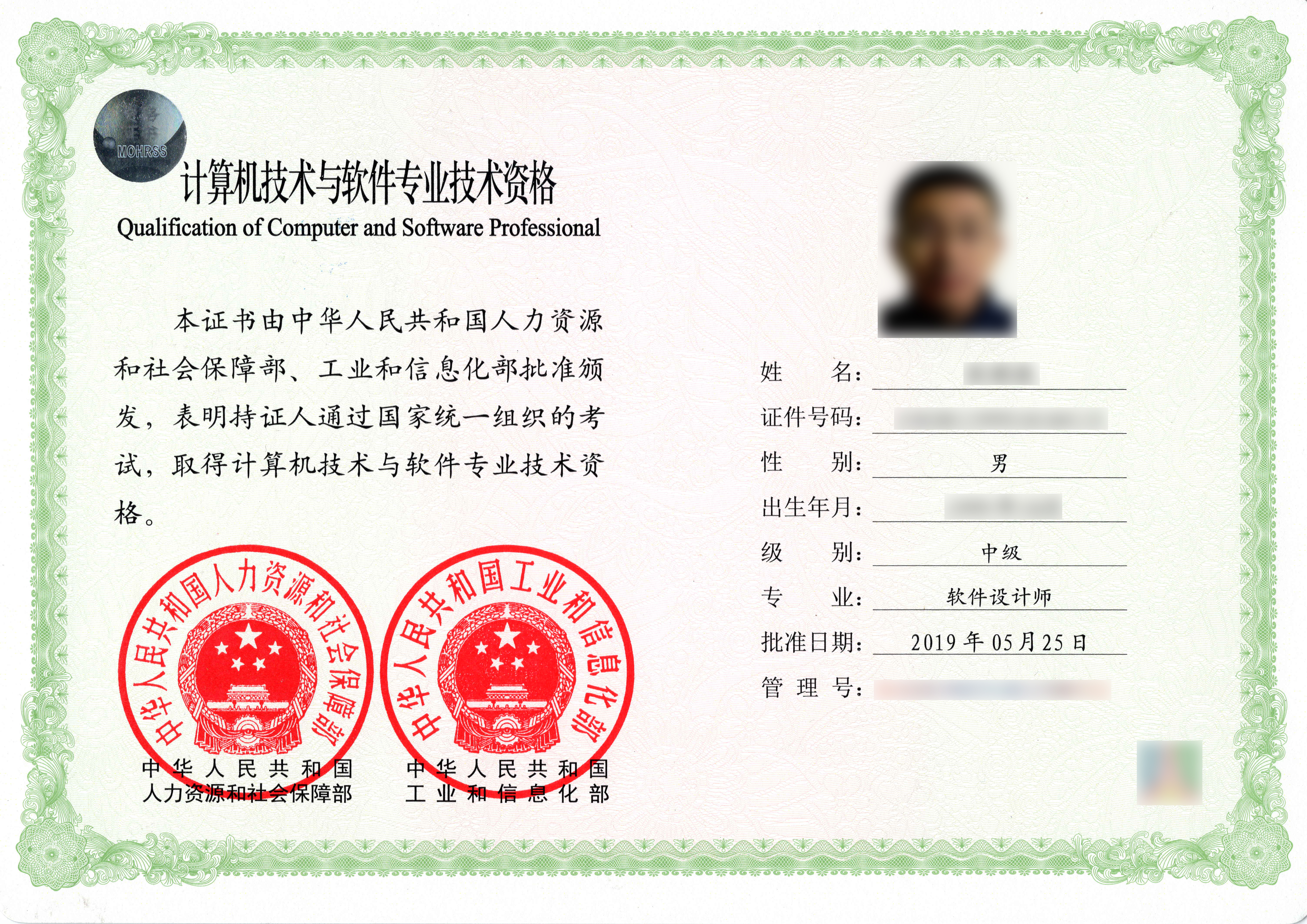 China Qualification of Computer and Software Professional Certificate